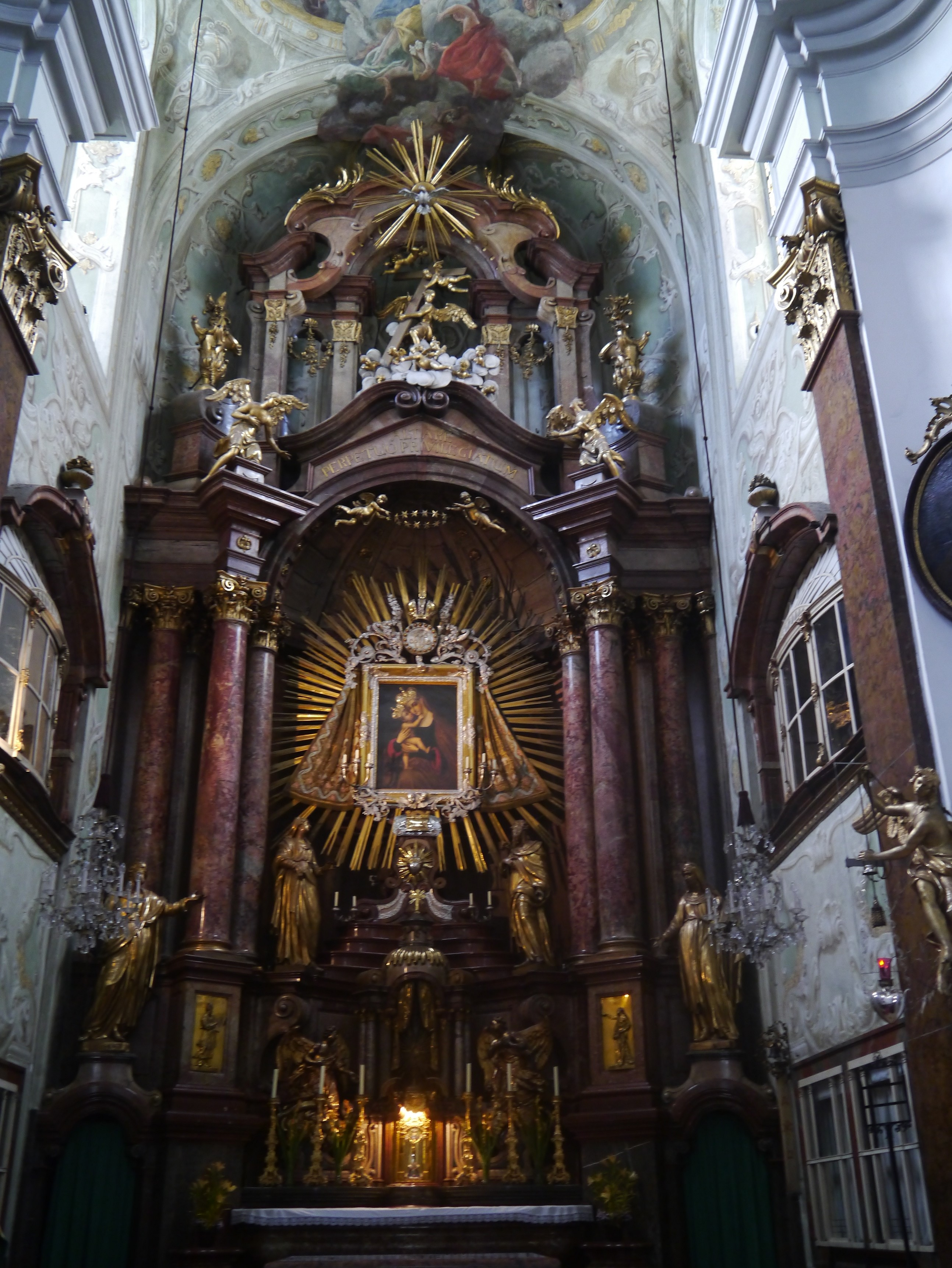 High Altar of St. Mary Help, Vienna